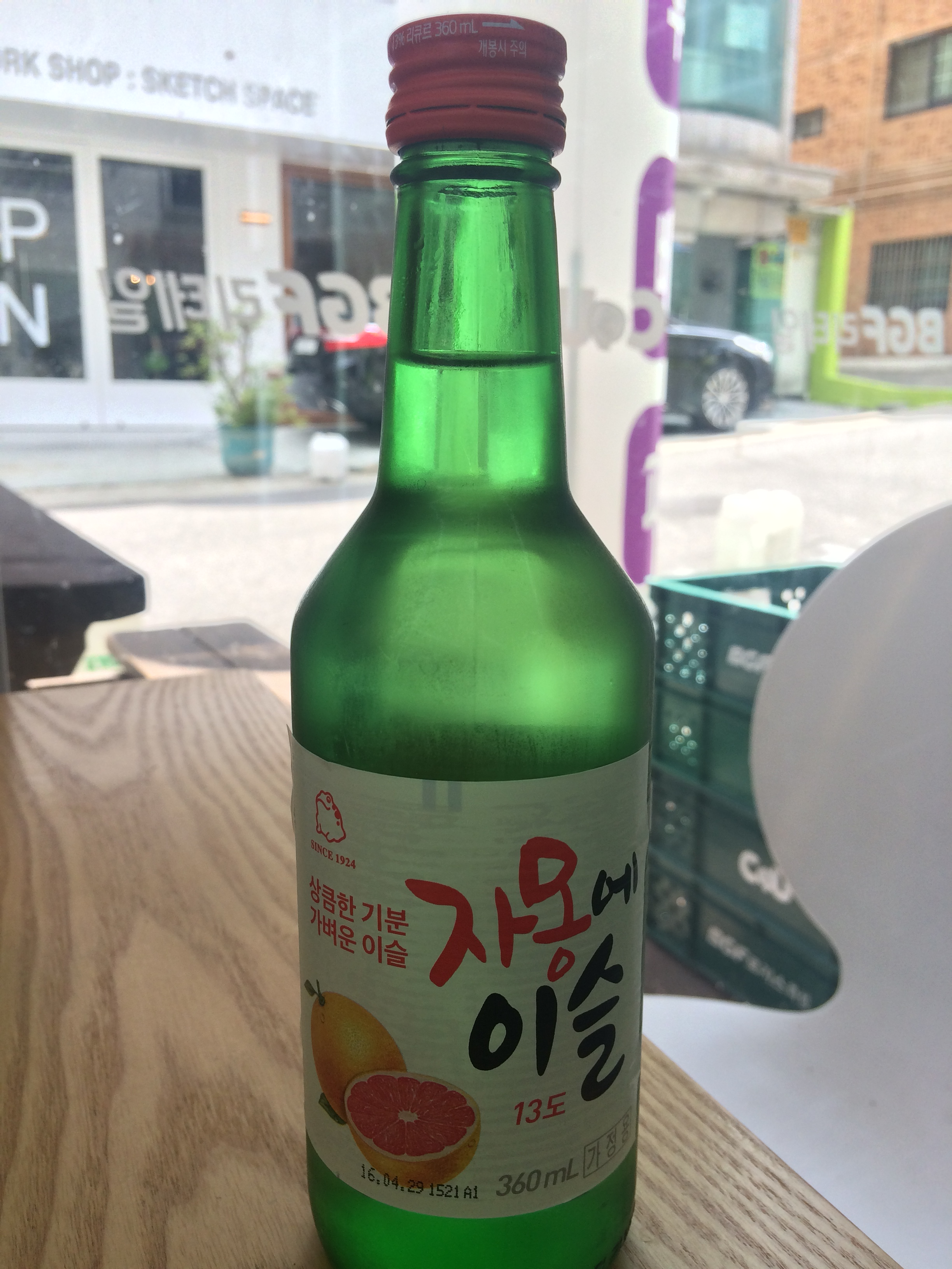 dew on grapefruit